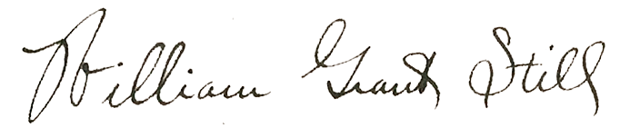 An autograph/signature by African American composer William Grant Still.